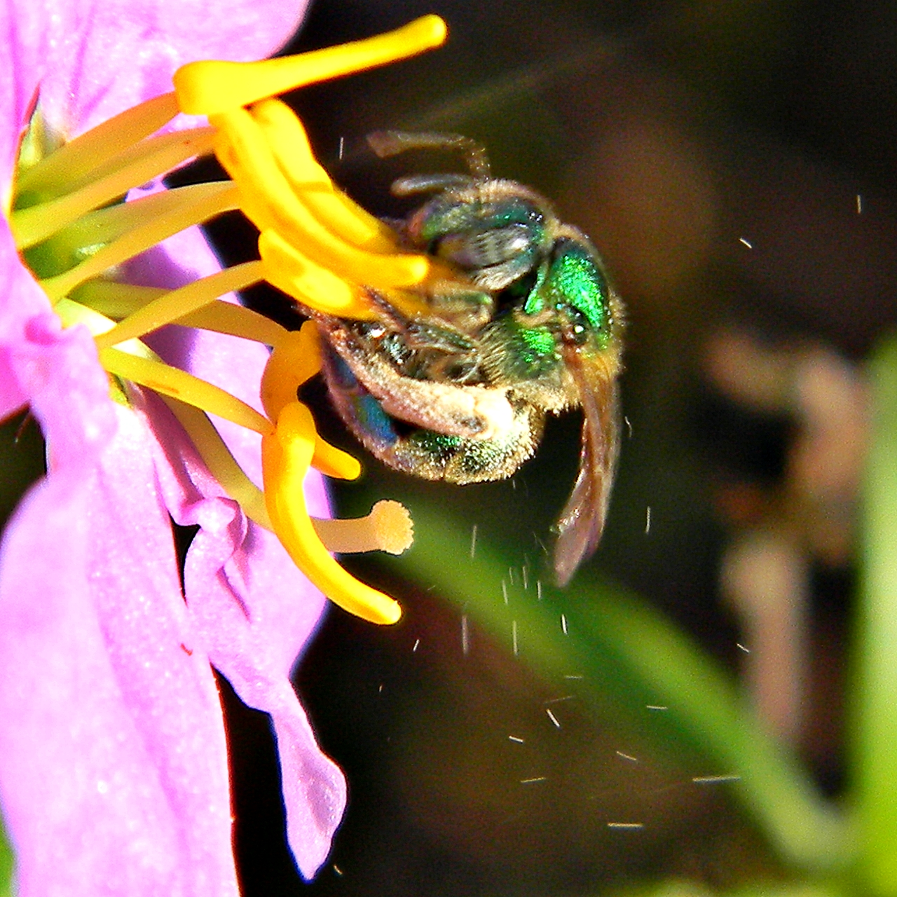 This little halictid bee is using sonication or "buzz pollination" to get pollen grains from a pale meadow beauty blossom. She grabs an anther and uses her flight muscles to rapidly vibrate the flower, dislodging the pollen grains. The process is very energetic and some of the errant pollen grains appear in the photo above as short meteoric trails in the bright sunlight. Meadow beauties are one of several types of flowers (including blueberries) that can only be pollinated via buzz pollination. Getting a sharply focused image of a buzz pollinating bee can be a challenge. Bumblebees also use buzz pollination.